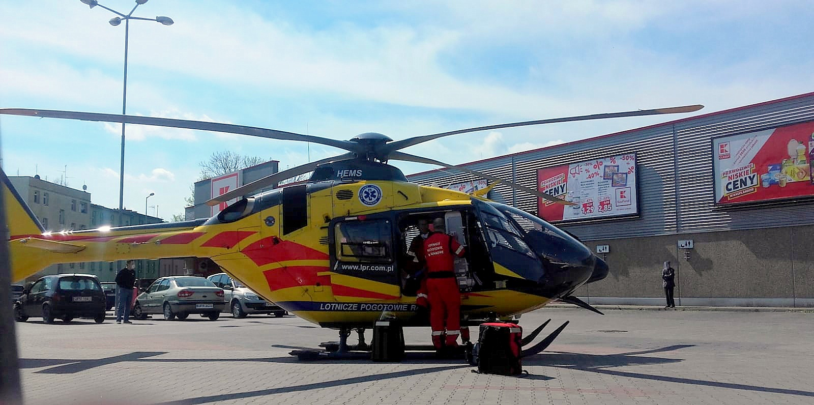 Eurocopter EC135P3 Air Ambulance from Poland